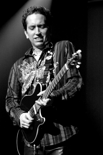 Neil Zaza performing on guitar